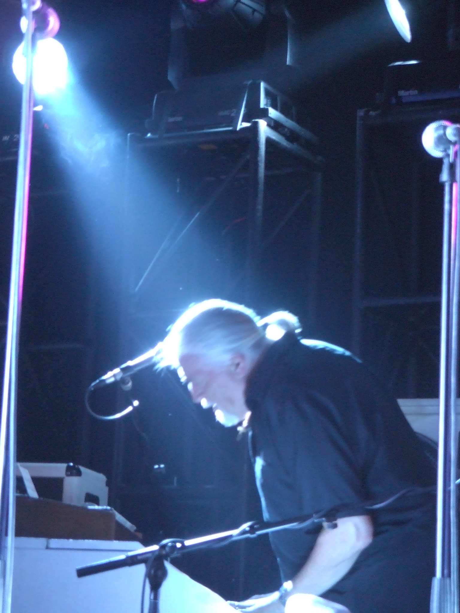 Jon Lord on stage for the Sunflower Jam, London, 2007